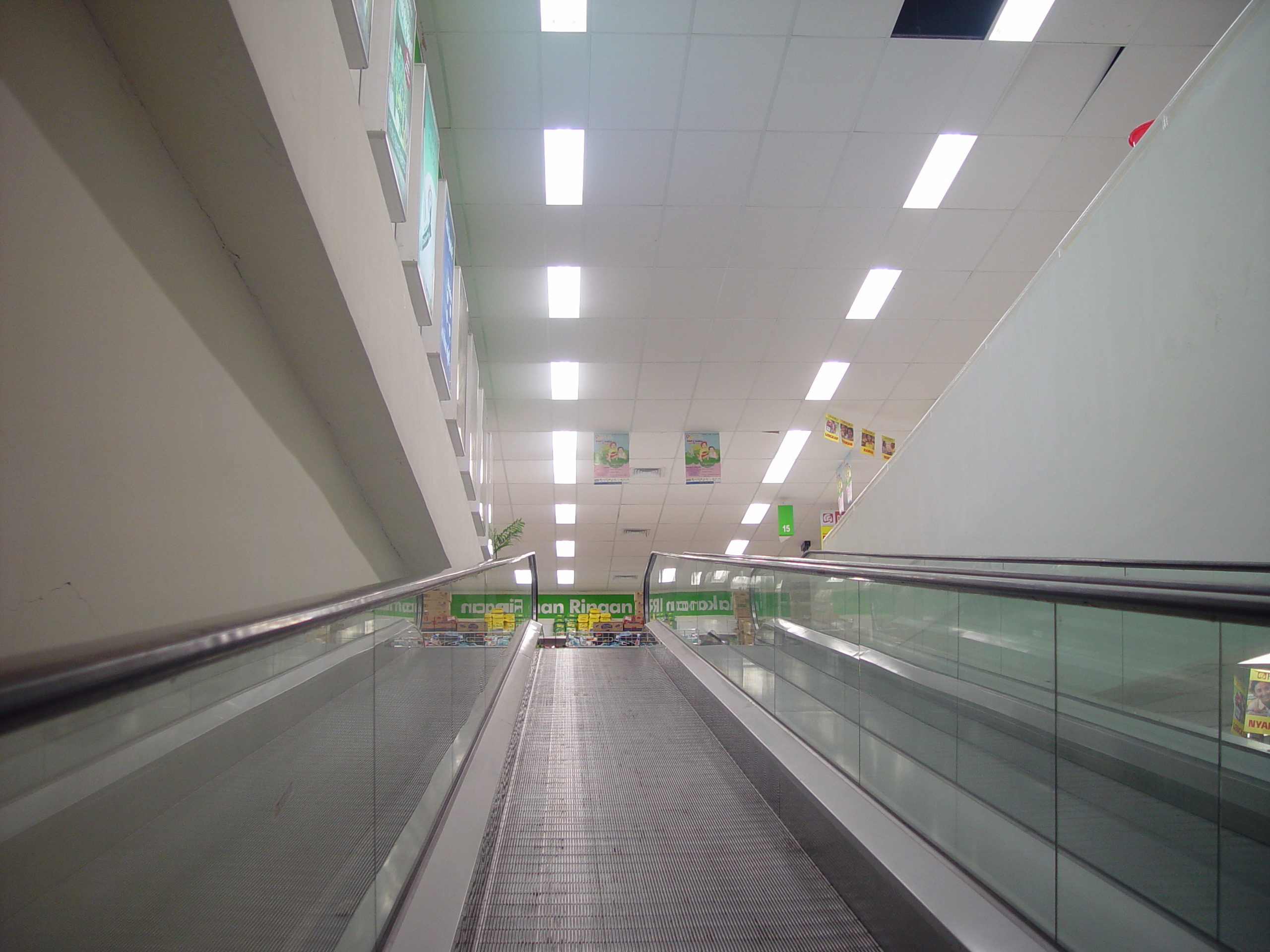 Mall cultural in Jakarta, Indonesia.